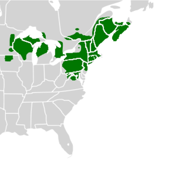 Added wood turtle distribution to original, blank map.